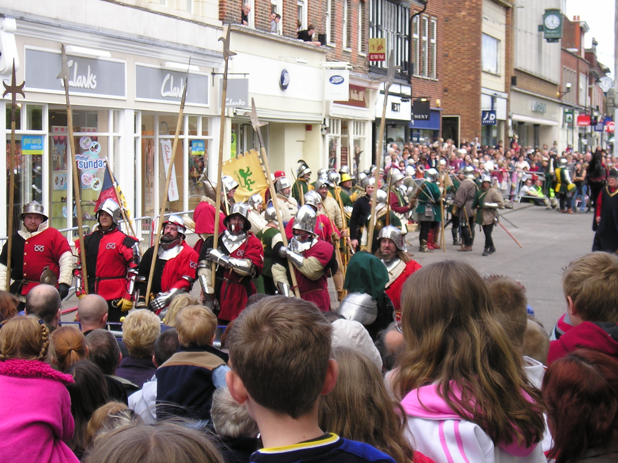 Assembly of re-enactors for the First Battle of St Albans